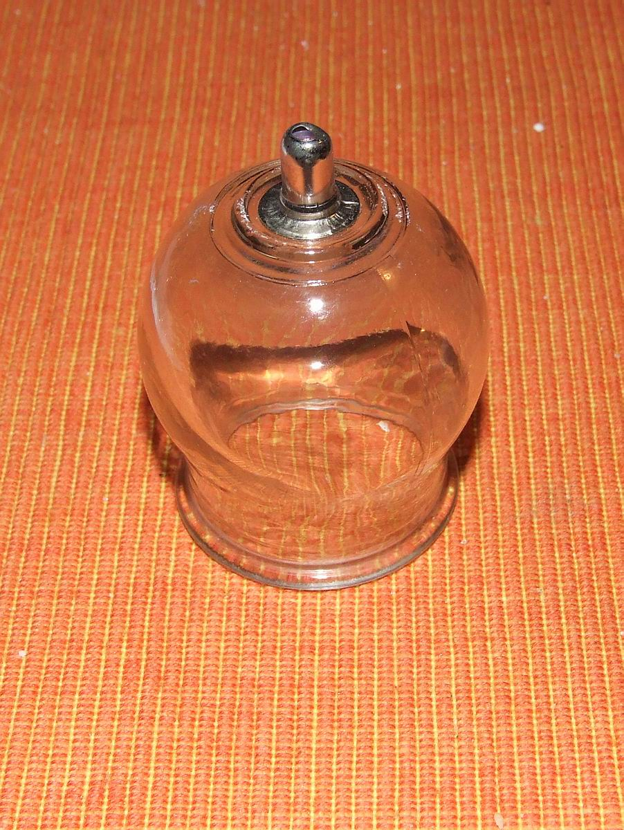 Vacuum suction